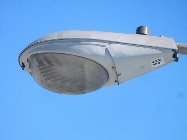 History of street lighting: General Electric M400 Split-Door (1970-1985) (150–400 watts)